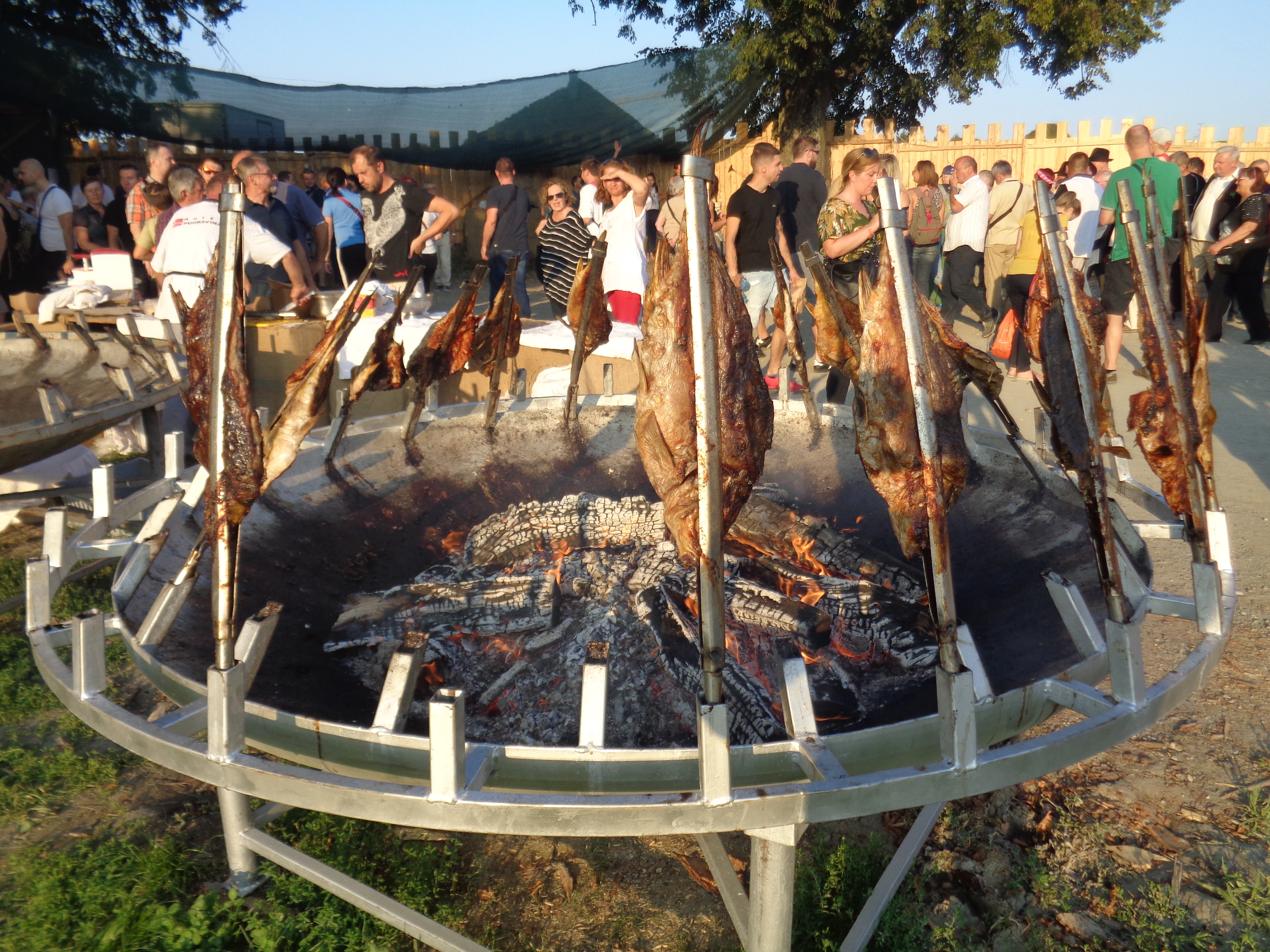 Koprivnica Renaissance Festival, Koprivnica, Croatia (2016) - barbecued carp